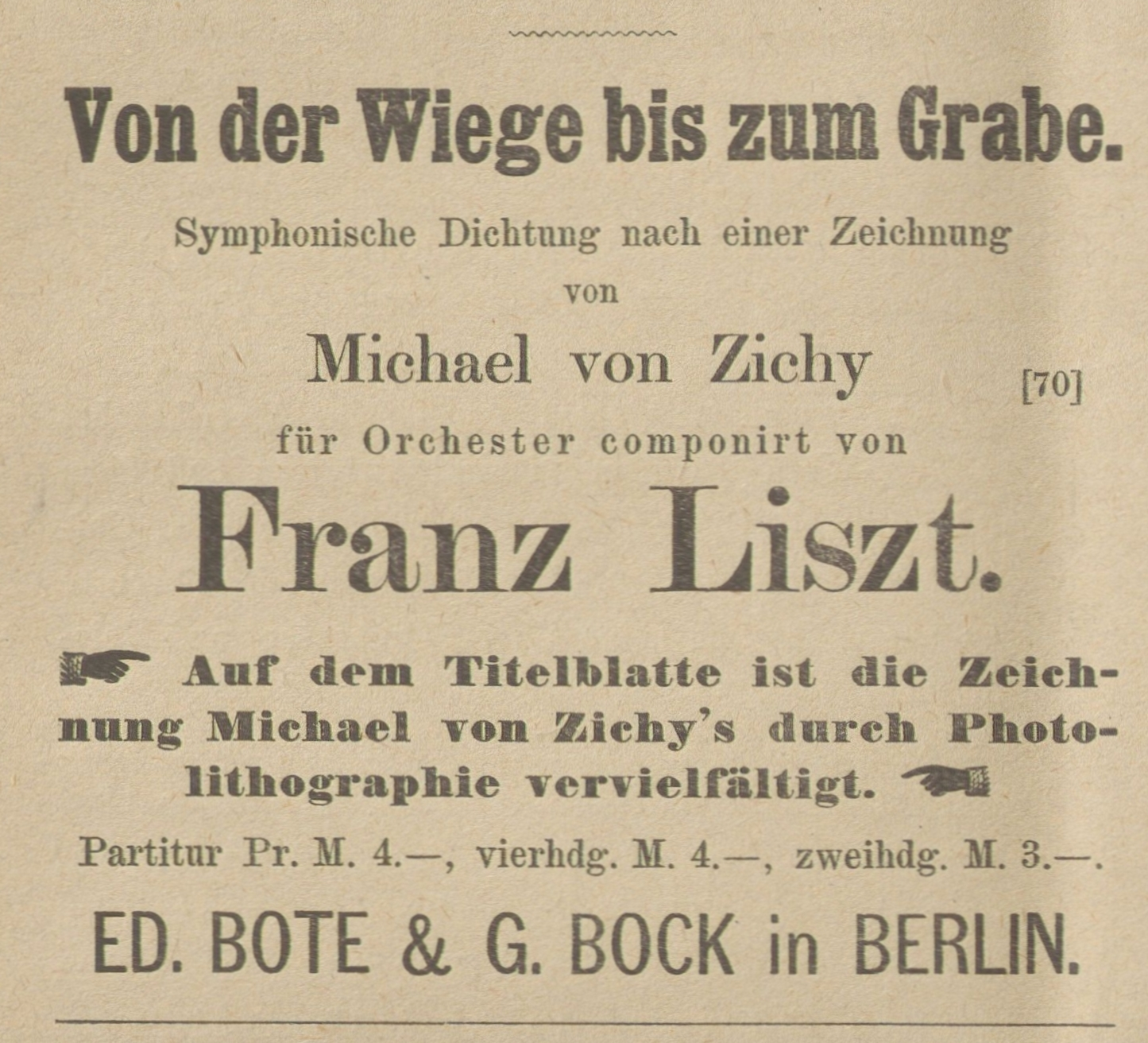 Advertisement of the music publisher Ed. Bote & G. Bock in Berlin to the sheet music of Franz Liszt's last symphonic poem Von der Wiege bis zur Bahre (From the cradle to the grave).